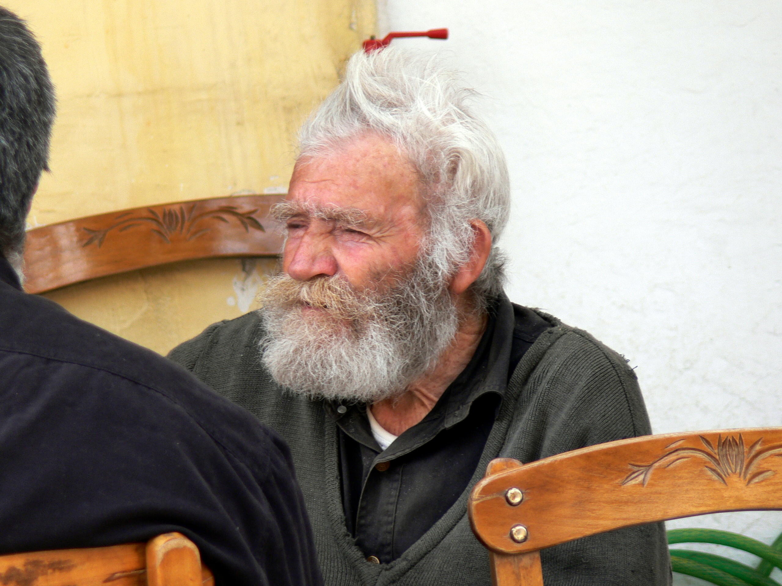 Vamos ( Crete ). Old man in a kafenion ( Café ).